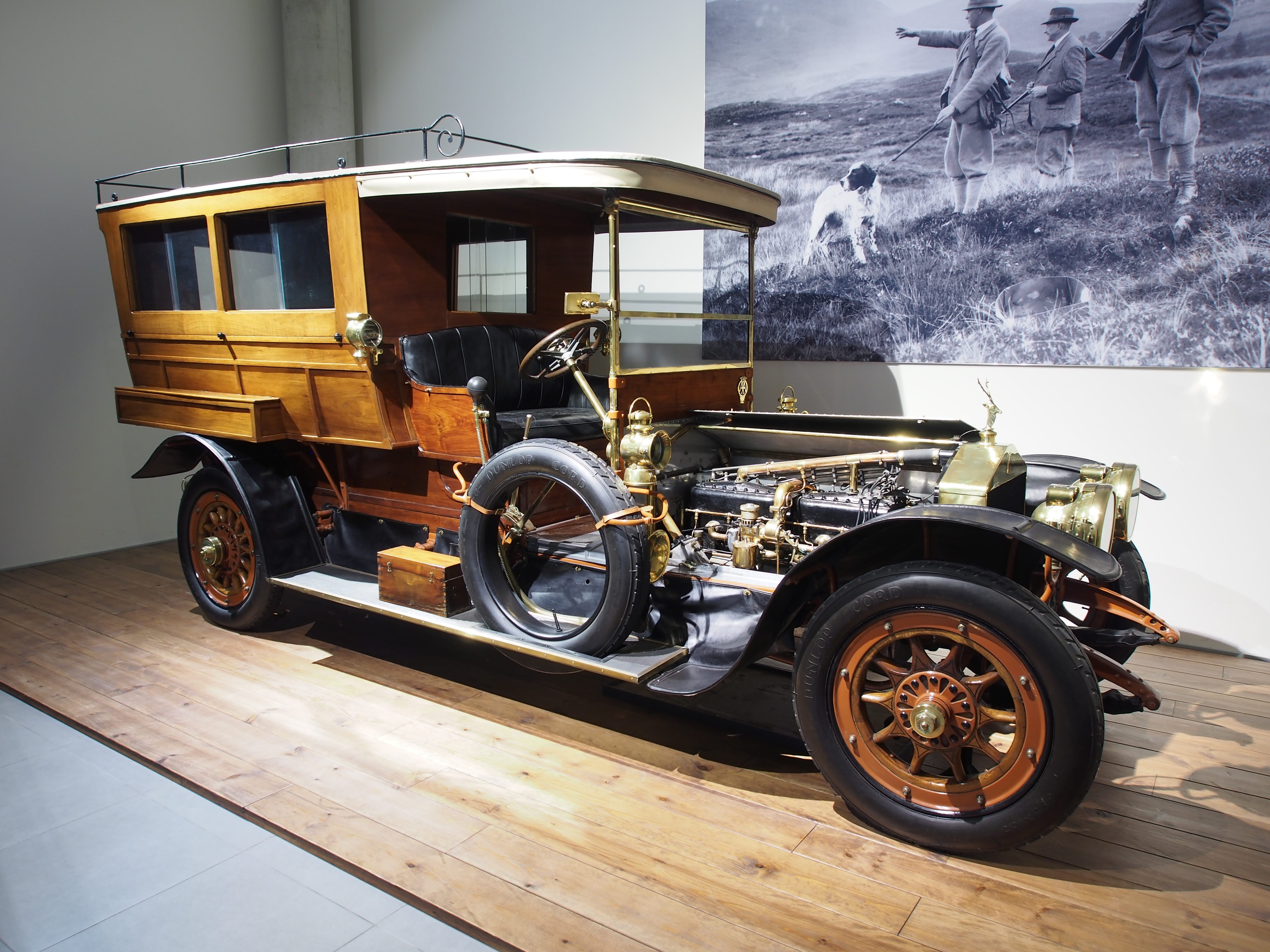 1910 Rolls-Royce Silver Ghost Croall & Croall Shooting Brake photographed at the Louwman museum.